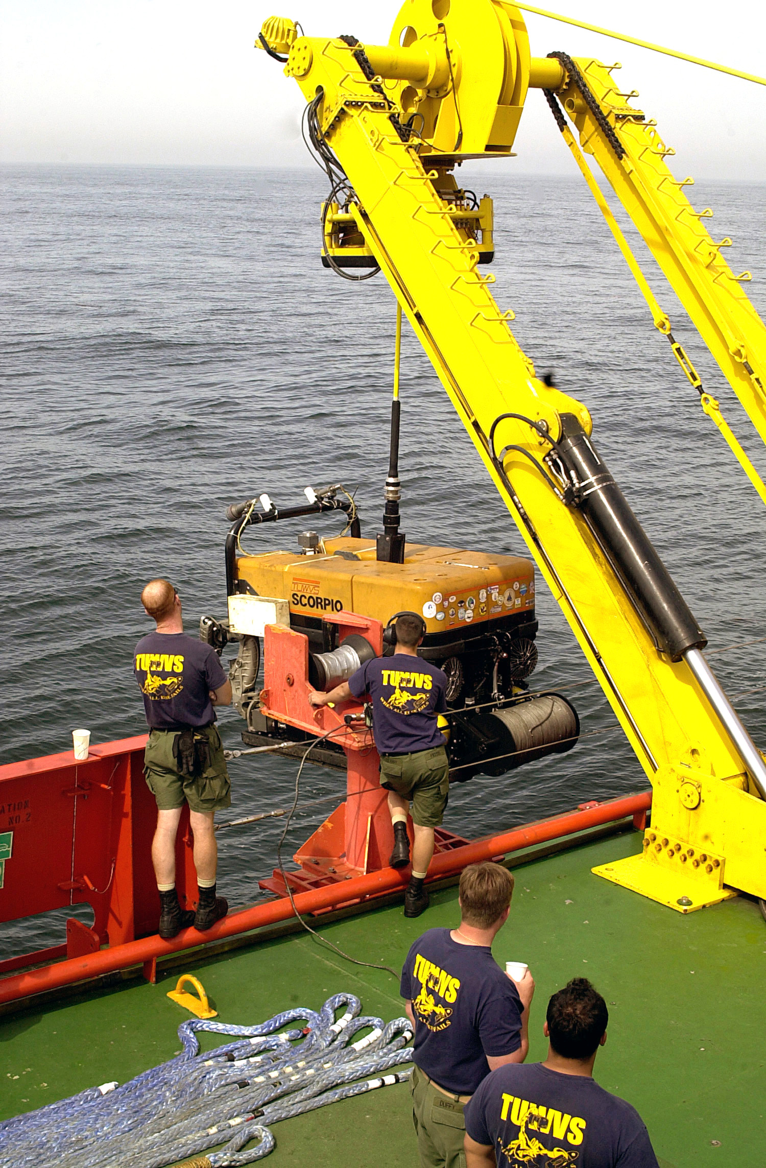 Pacific Ocean (Apr. 26, 2004) - Deep Submergence Unit (DSU) Unmanned Vehicle Detachment (UMA Det) personnel guide the "Super Scorpio" remote operated vehicle (ROV) to a safe recovery aboard the special mission charter ship M/V Kellie Chouest. "Super Scorpio" is being used to survey wreckage of an F-14D Tomcat that crashed off the coast of Point Loma, Calif. Kellie Chouest is one of four Submarine Support Vessels belonging to the Military Sealift Command (MSC) Special Mission Ships Program. U.S. Navy photo by Photographer's Mate 1st Class Daniel N. Woods. (RELEASED)